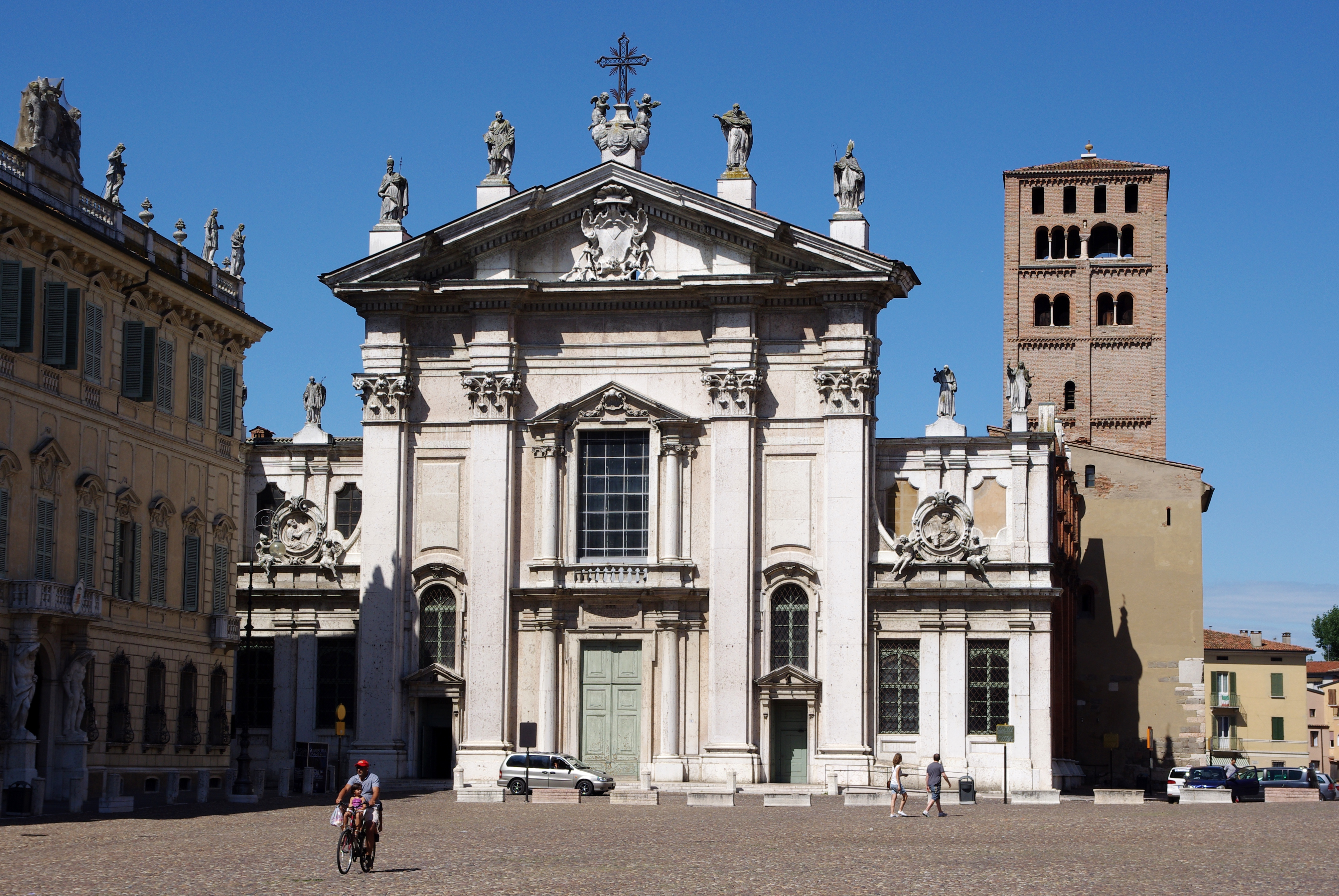 Mantua Cathedral